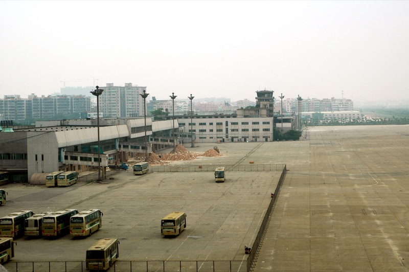 Funny how the airport has become a bus depot. But can you imagine that terminal serving like 15 million passengers a year?!